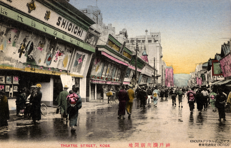 Theatre Street in Kobe, Japan